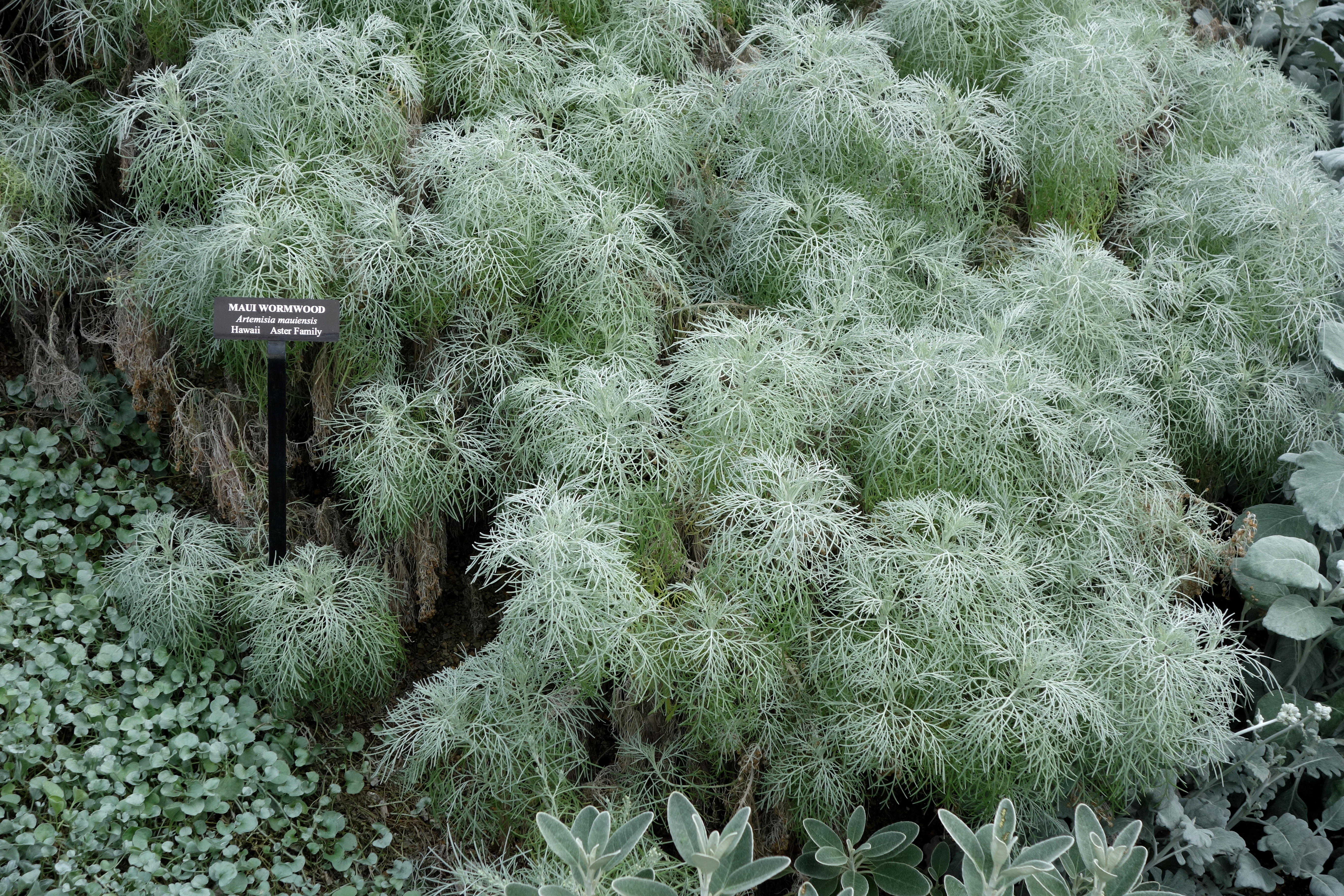 Botanical specimen in Longwood Gardens, 1001 Longwood Rd, Kennett Square, Pennsylvania, USA.